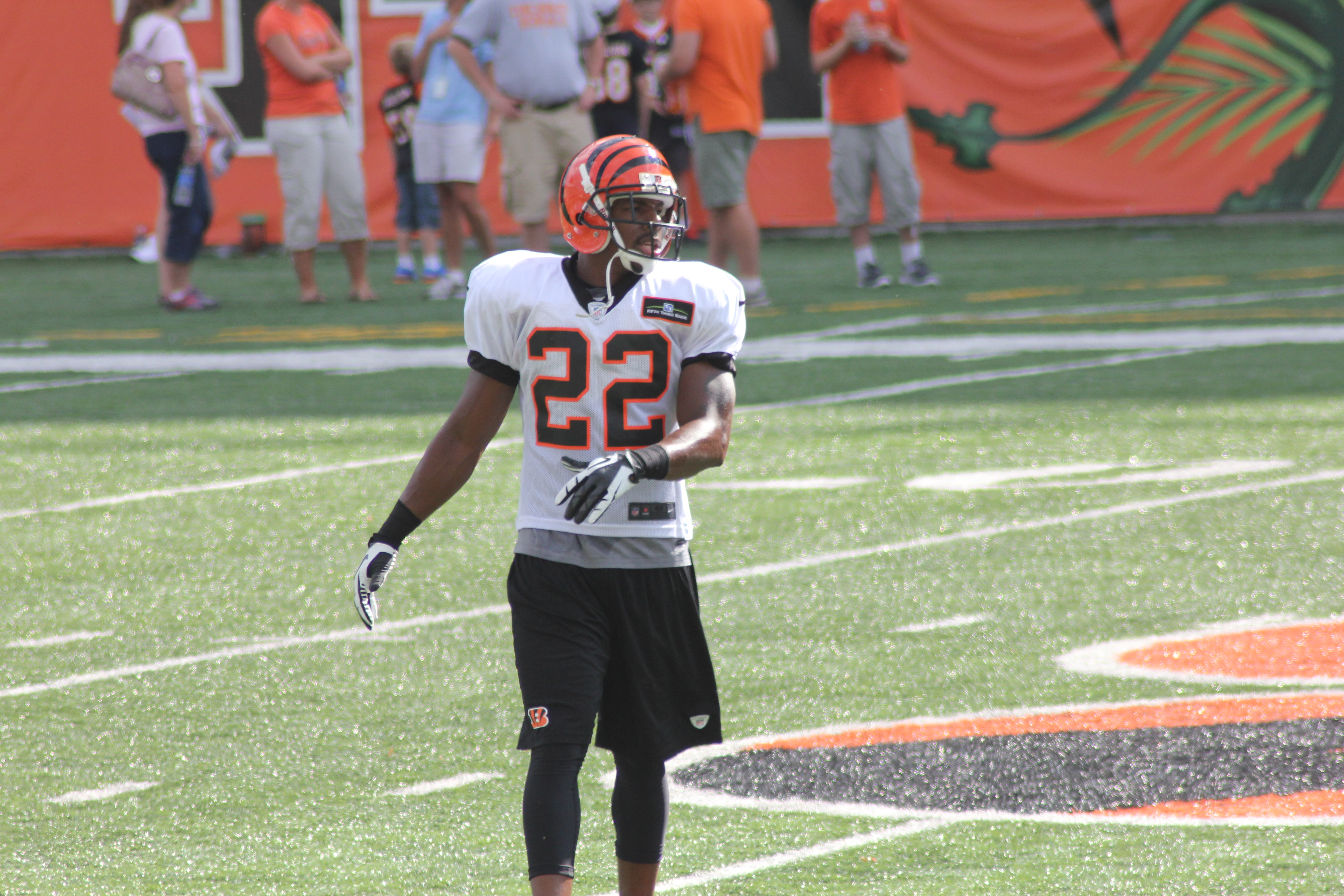 Nate Clements, cornerback of the Cincinnati Bengals.